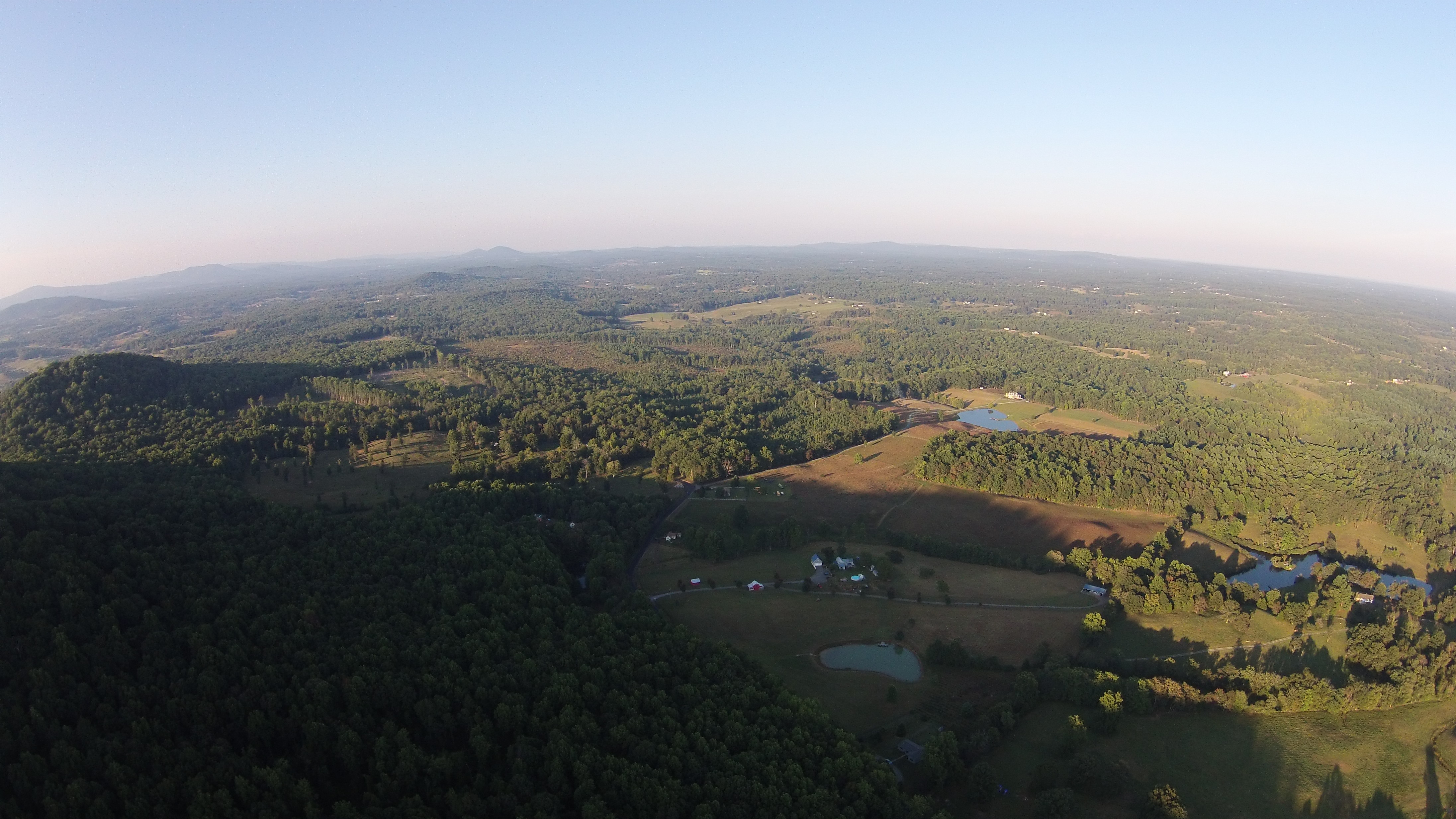 The eastern slope of Battle Mountain facing north-east, towards Amissville, Virginia. Altitude of approximately 1,400 feet taken with a DJI Phantom 3 drone in August 2015.